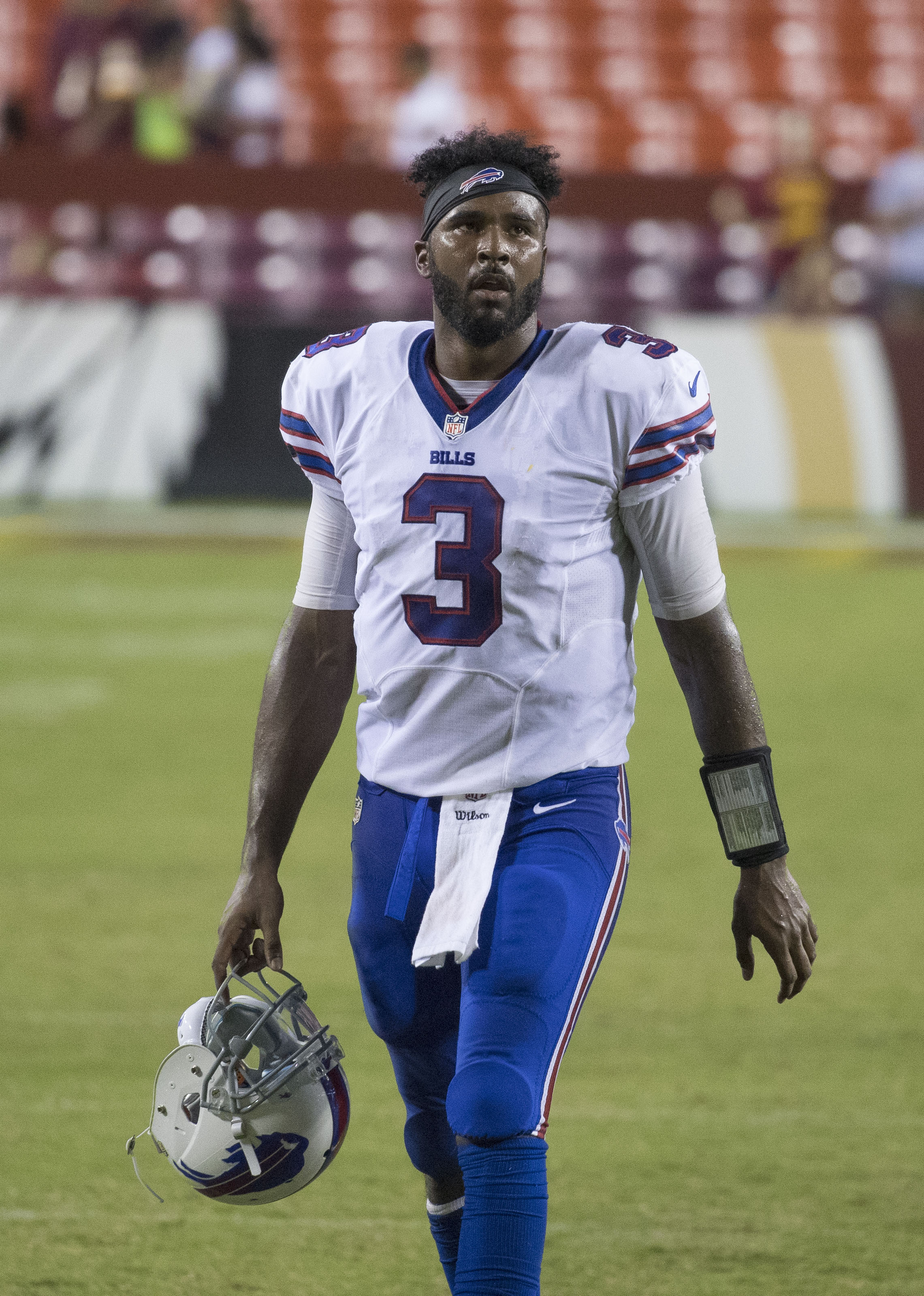 Buffalo Bills quarterback, EJ Manuel, at a preseason game game against the Washington Redskins on August 26, 2016.